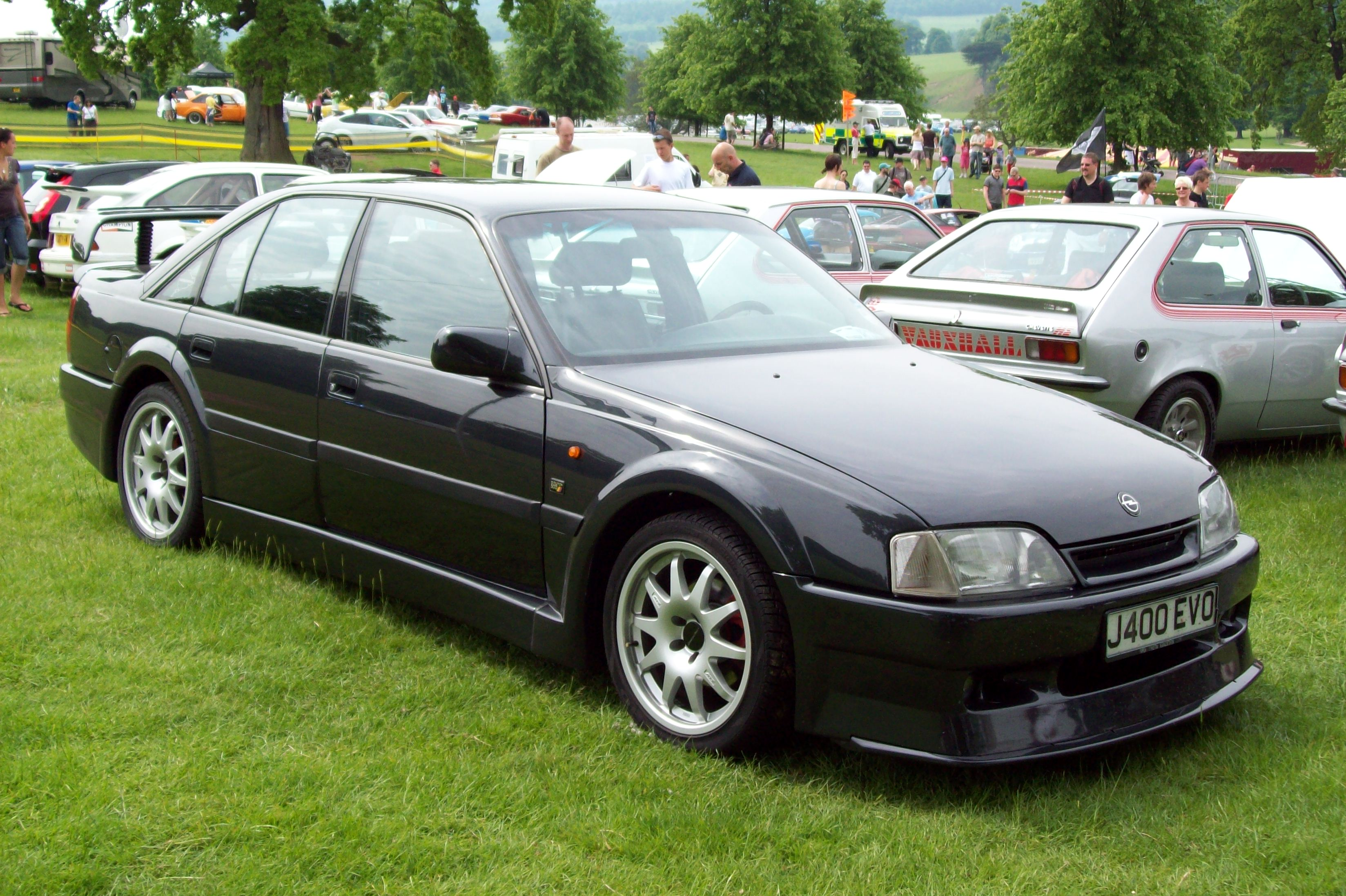 Taken at the Chatsworth Rally Show 2010. A rare Evo 500.